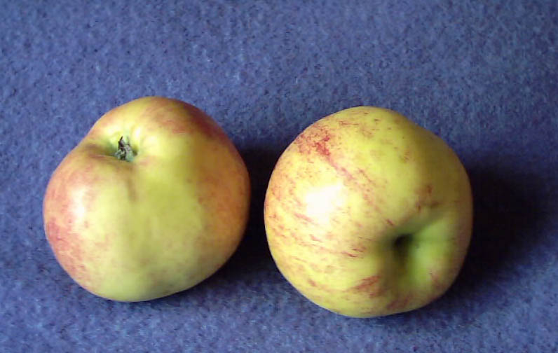 Gravensteiner Apfel, own photograph of 23 October 2005.